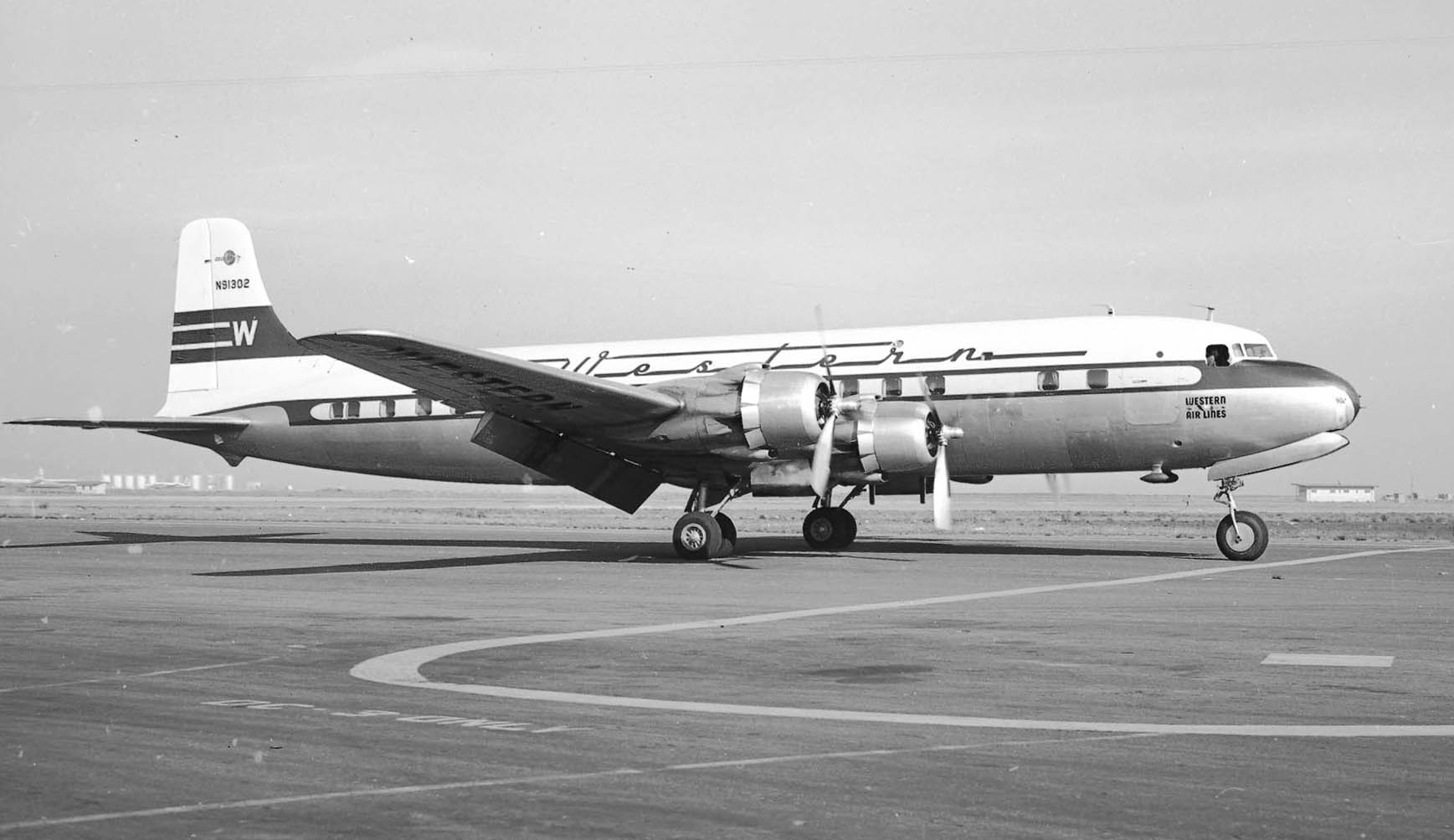 N91302 taxi at San Francisco in January 1953.